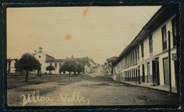 Calle principal del municipio.